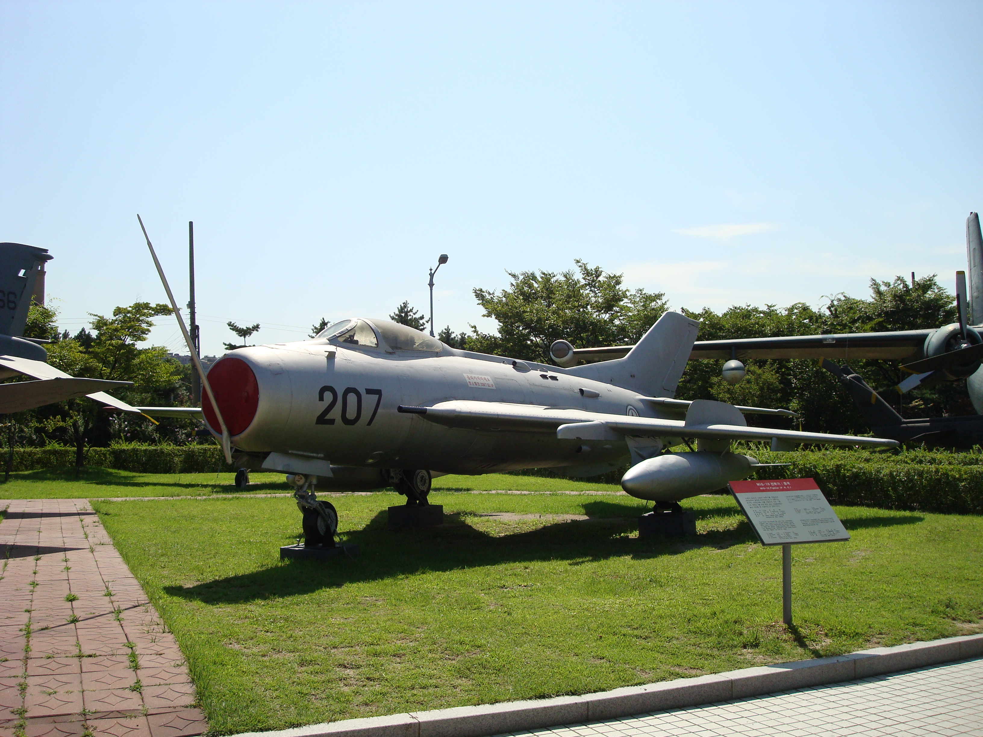 North Korean Air Force J-6 on display at the War Memorial of Korea in Seoul. This jet was flown to the Republic of Korea by Captain Lee Wung-pyeong who defected from North Korea on February 25, 1983.